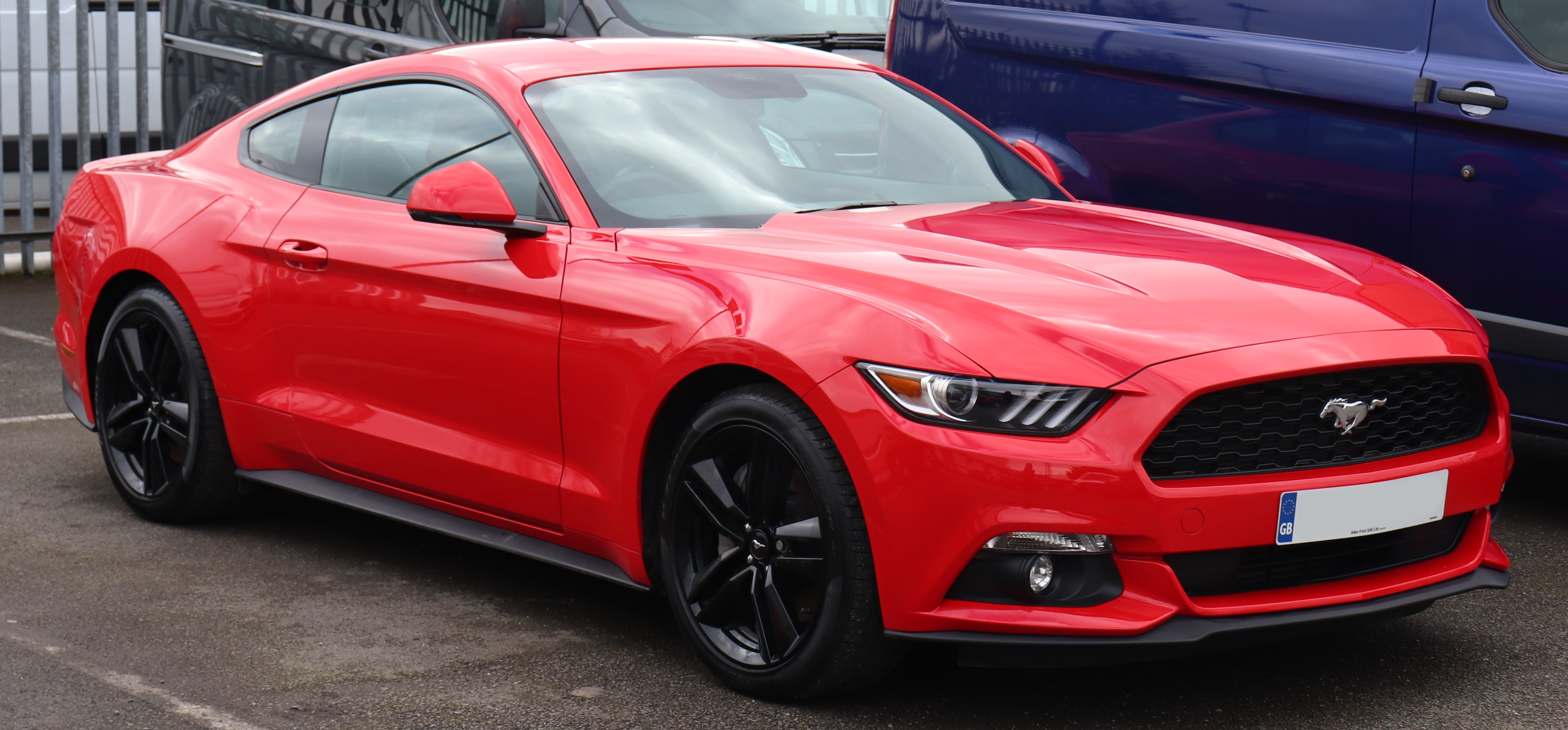 2017 Ford Mustang EcoBoost 2.3 Front Taken in Leamington Spa